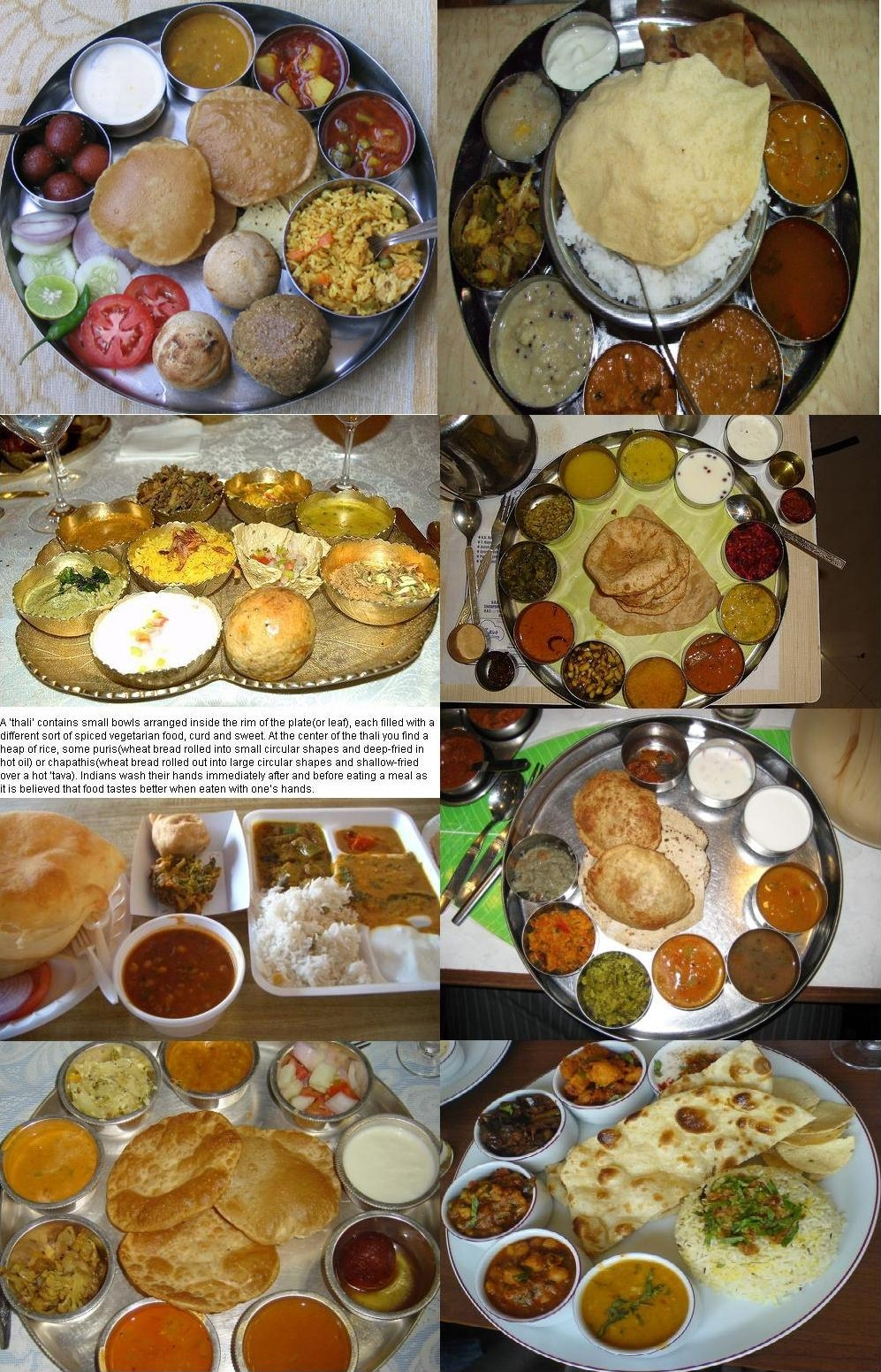 Indian meals(Thali) served on either a Silver or Stainless steel plate.